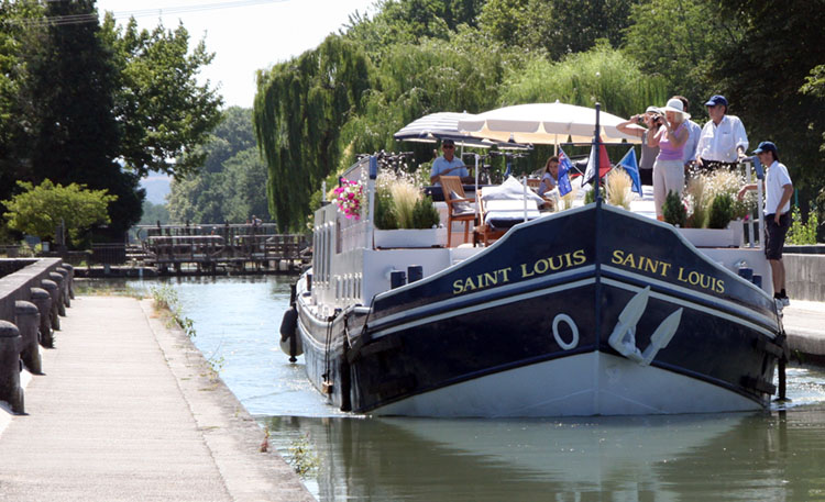 Hotel barge Saint Louis crosses the Agen aqueduct